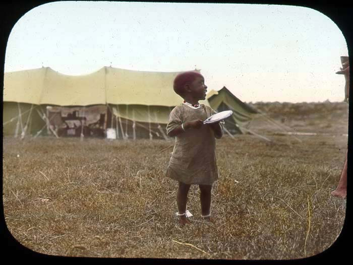 Small child holding an unidentified object, camp tents in background. 1906. Name of Expedition: British East Africa Participants: Carl Akeley Expedition Start Date: October 8, 1905 Expedition End Date: December 21, 1906 Purpose or Aims: Zoology Mammals Location: Africa, Kenya Original material: Hand-colored glass lantern slide Digital Identifier: CSZ20376_LS Learn more about The Field Museum's Library Photo Archives.